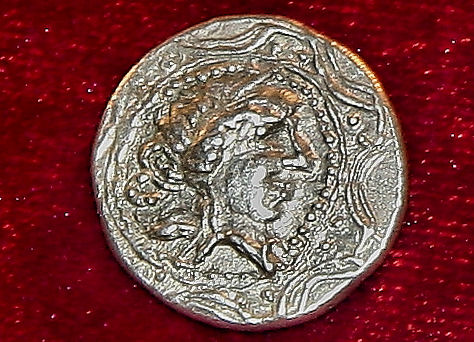 Romanian National History Museum Silver Koson, discovered at Dealul Bodii, exposed in National Museum of Romanian History